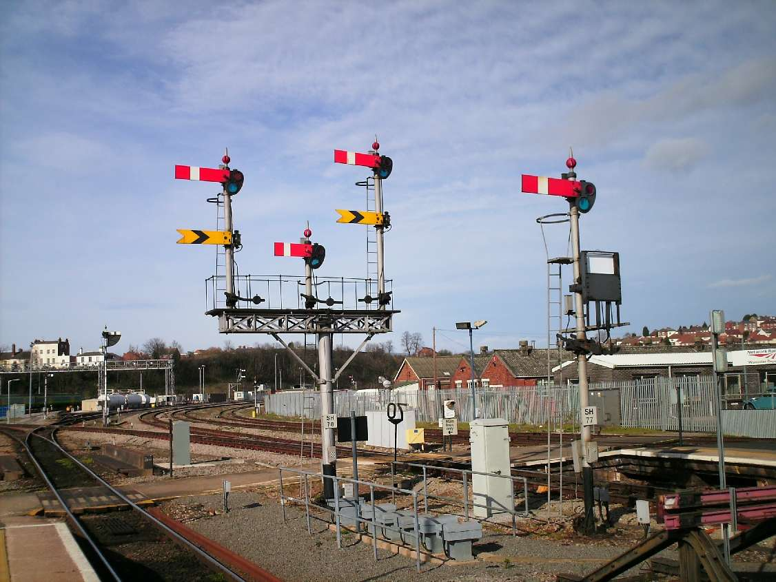 Signals SH77 and SH78 at the north end of Worcester Shrub Hill railway station. Note the Network Rail depot in the background and the foot crossing over the railway, in the absence of a functional lift at the station. These signals exist from the British Rail Western Region era.